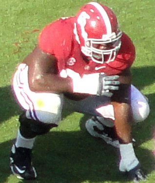 Alabama Crimson Tide offensive guard Chance Warmack in position against Florida Atlantic at Bryant–Denny Stadium in Tuscaloosa, Alabama.